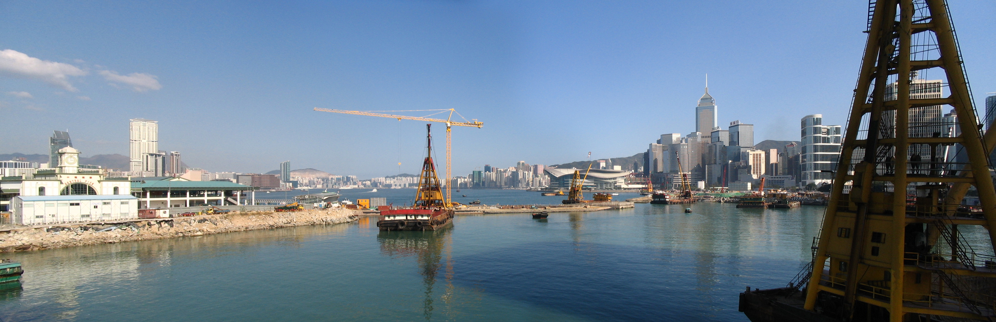 Panoramic photo of Central Reclamation Phase 3, combined from 2187944822, 2187945804 and 2187946680